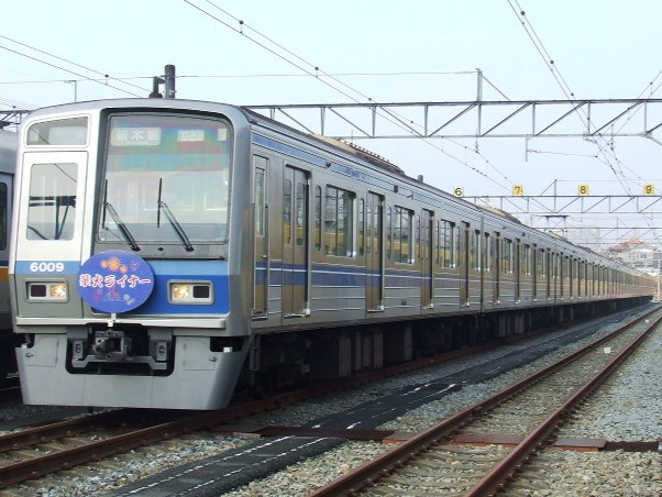 Seibu Railway 6000 series stainless steel car